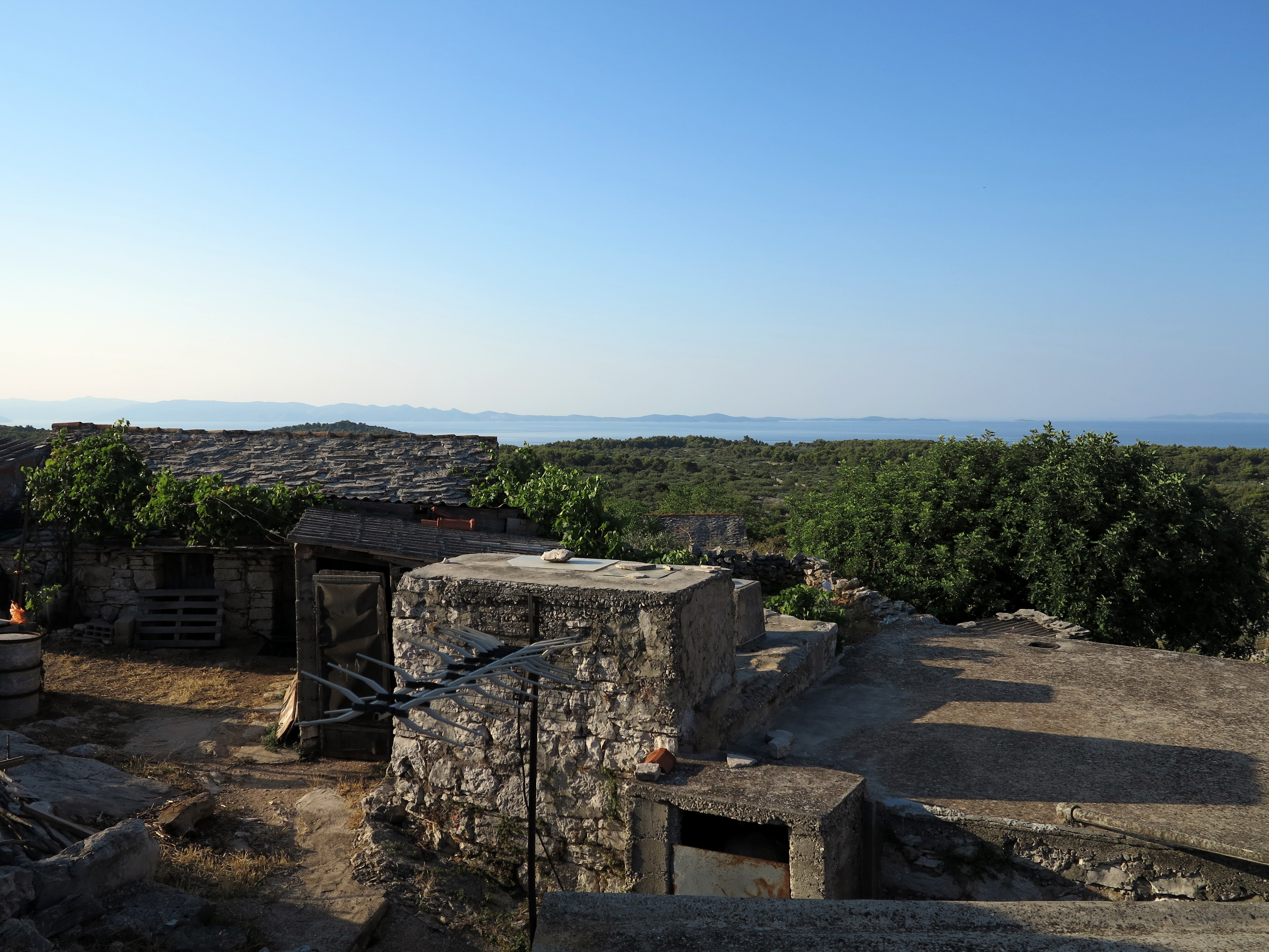 Gornje Selo on the island Šolta / Croatia / Adriatic Sea. View to the west.